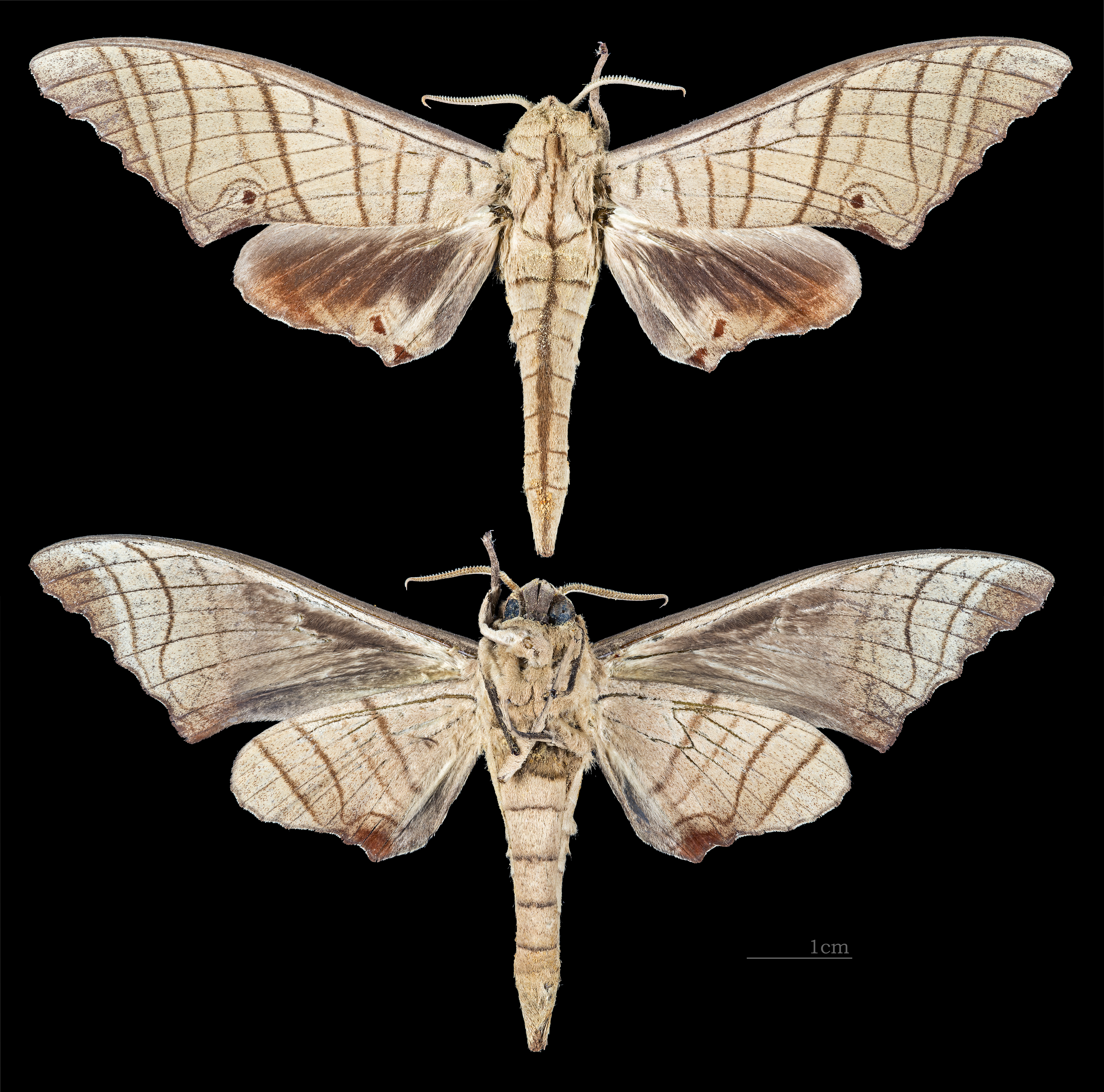 Marumba tigrina - Two views of same specimen Collection of the Mathematician Laurent Schwartz